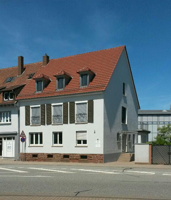 Chamber of Attorney at Deux-Ponts / Palatinate